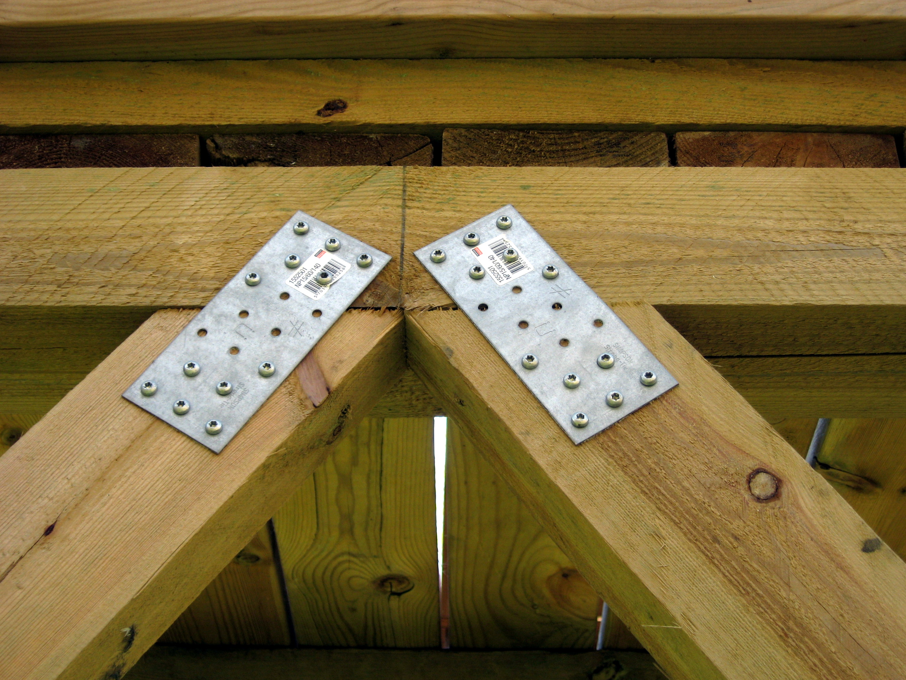 Fasteners / ties / connectors for wooden elements / for wood trusses